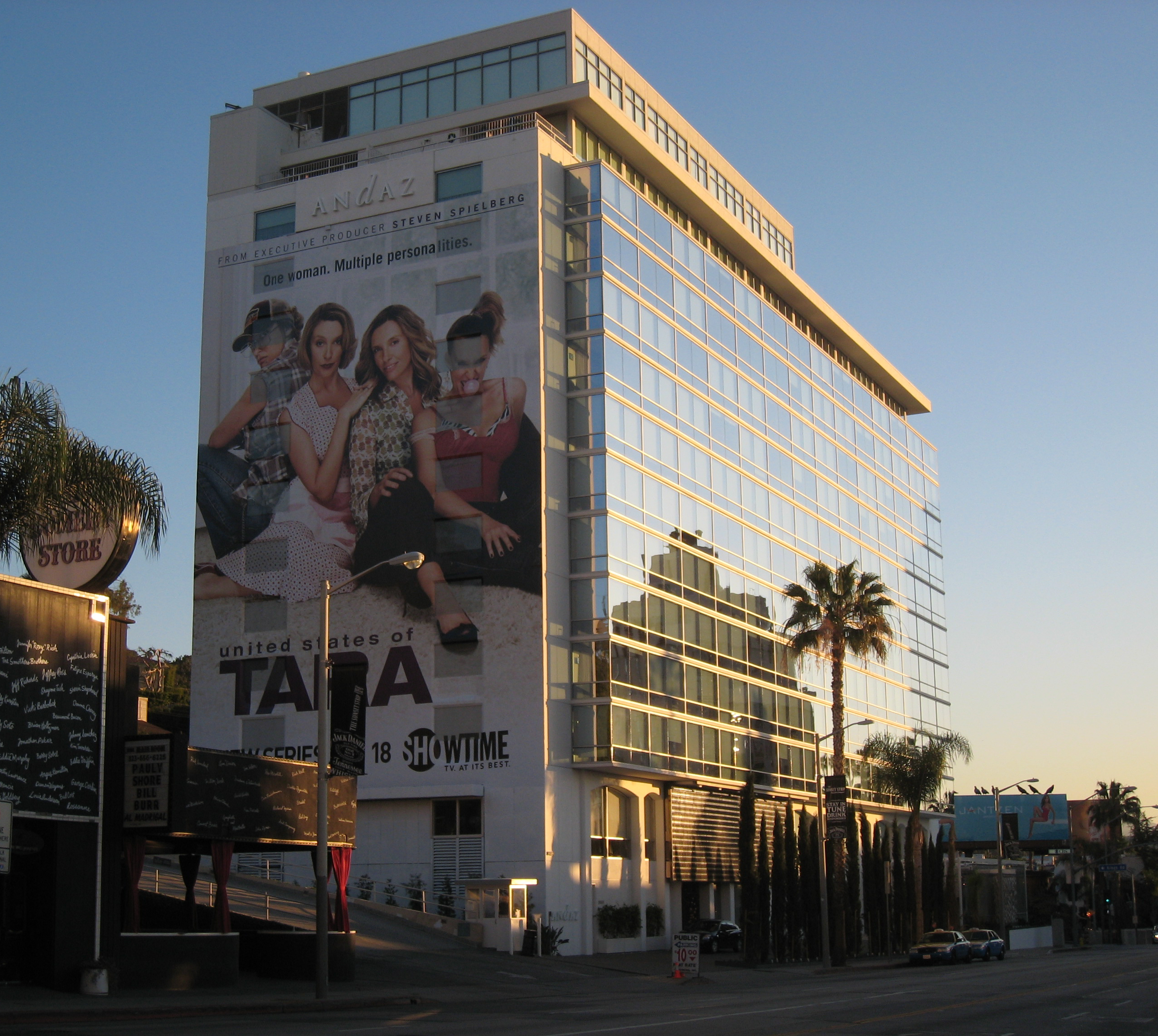 Andaz West Hollywood Hotel, formerly the Hyatt West Hollywood Hotel — on Sunset Boulevard in West Hollywood, California